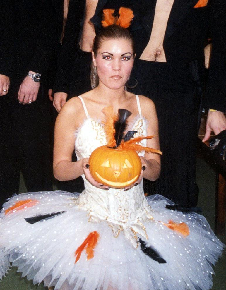 Malin Sundström of Caramell group, as released by image creator F.U.S.I.A.Place: Café Opera, Operahuset, Karl XII:s torg, Stockholm, Sweden